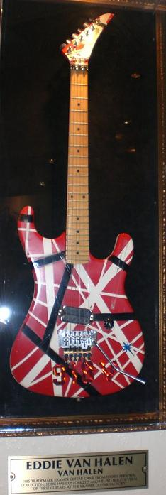 Van Halens guitar in Hard Rock Café Amsterdam